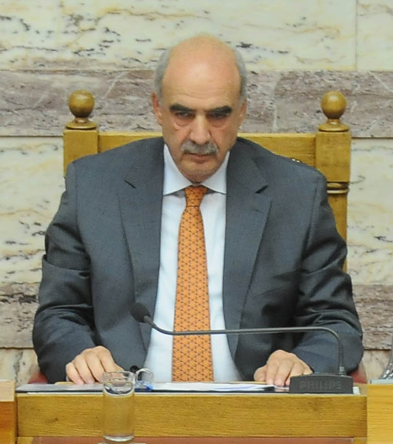 Speaker of Greece's Parliament, Vangelis Meimarakis